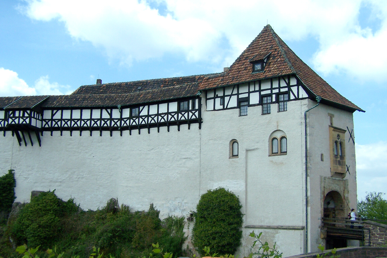 The Gatehouse of Wartburg castle.